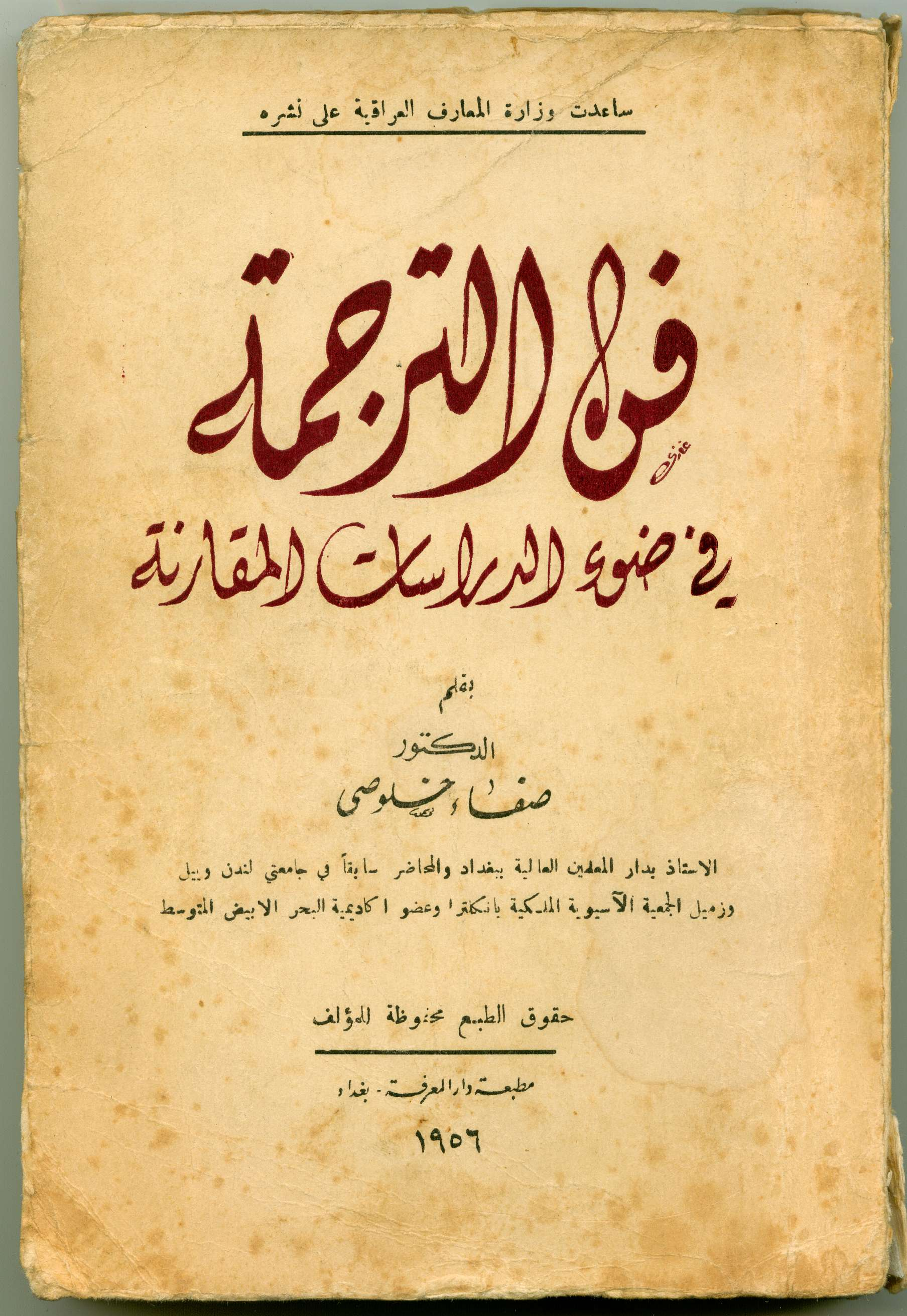 Textbook